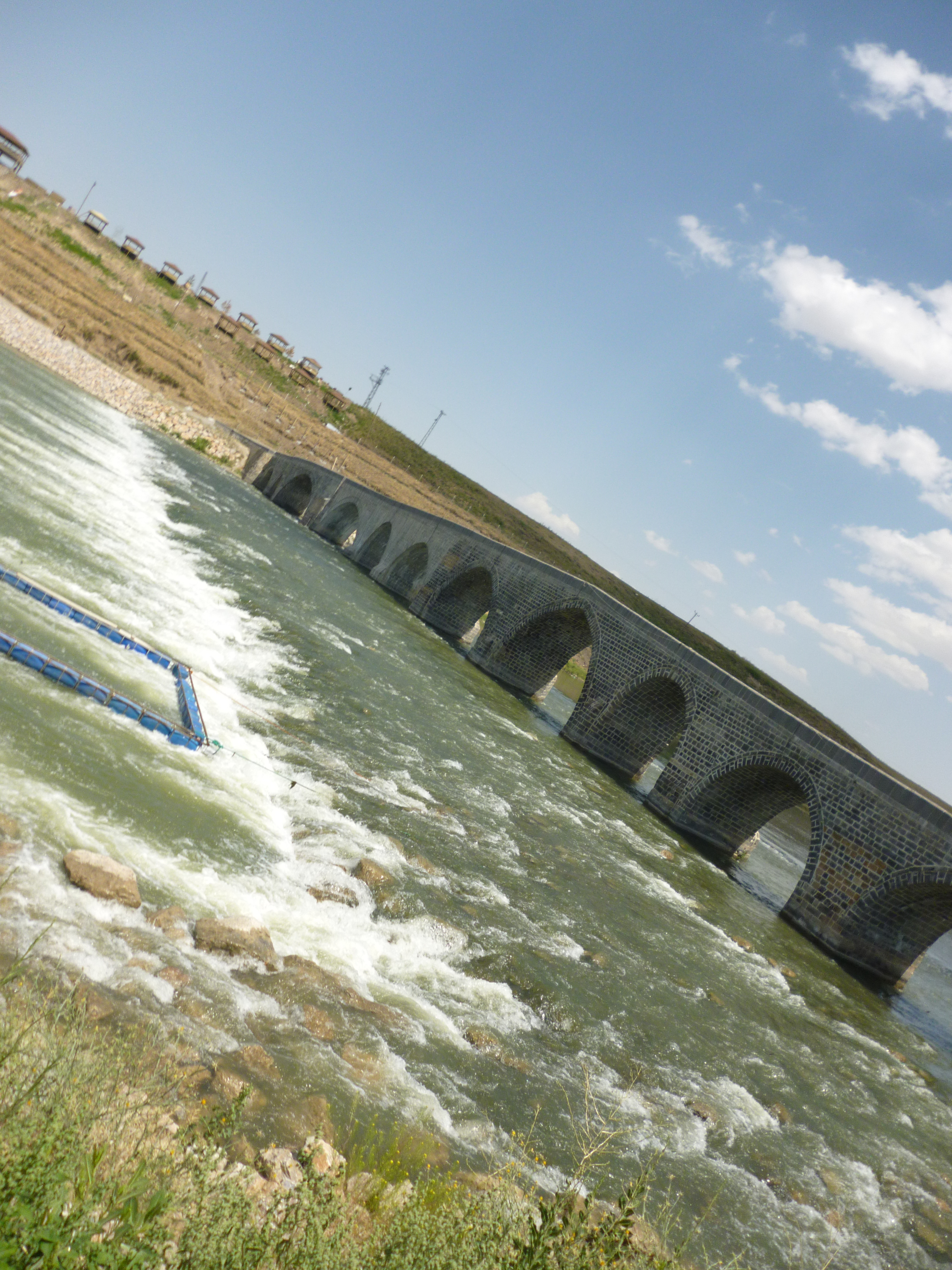 Sulukh bridge-8